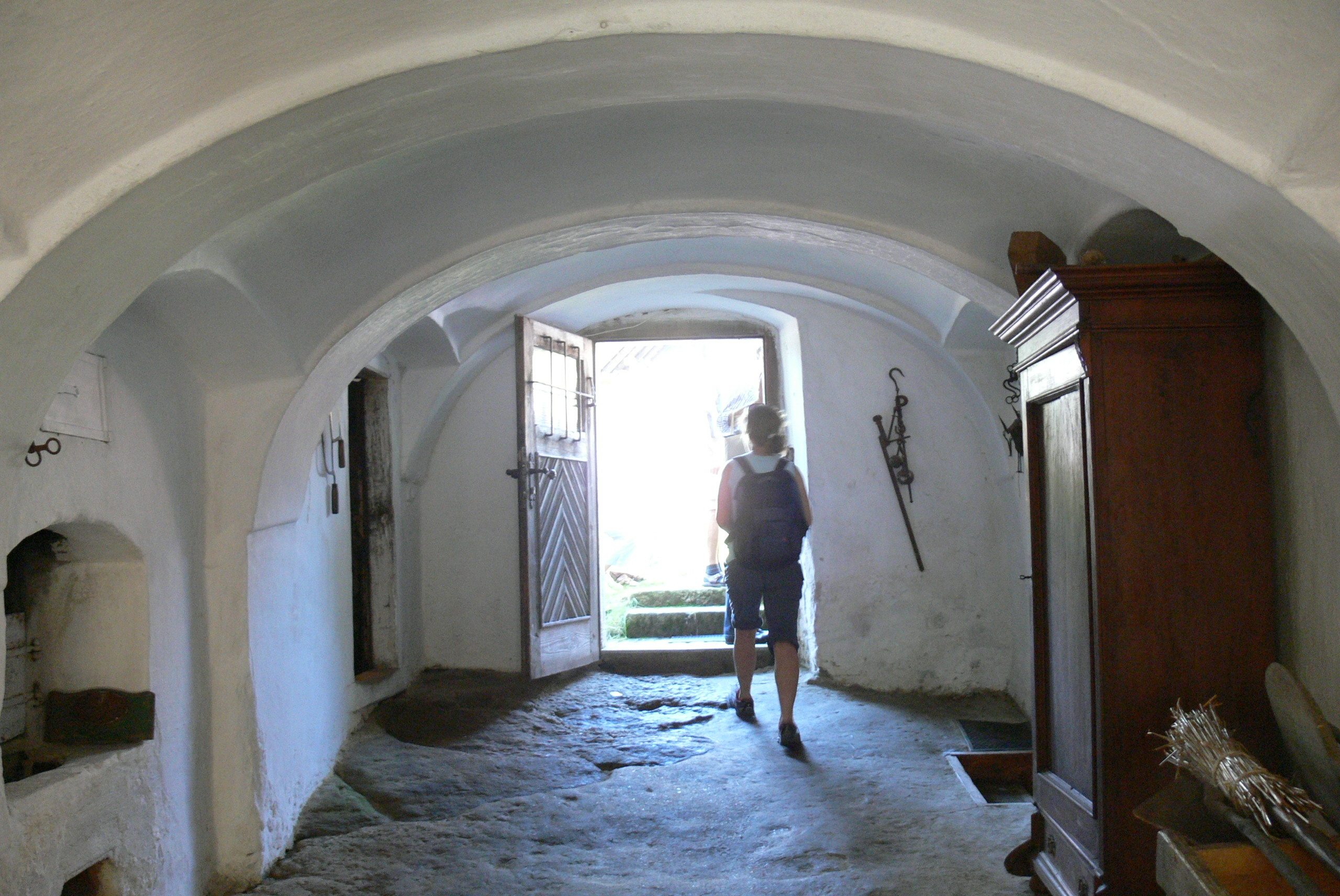 Auberg ( Upper Austria ). Unterkagerer farm: Corridor.